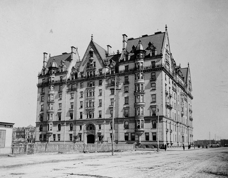 The Dakota Building, Manhattan, New York City. West 72nd Street facade.